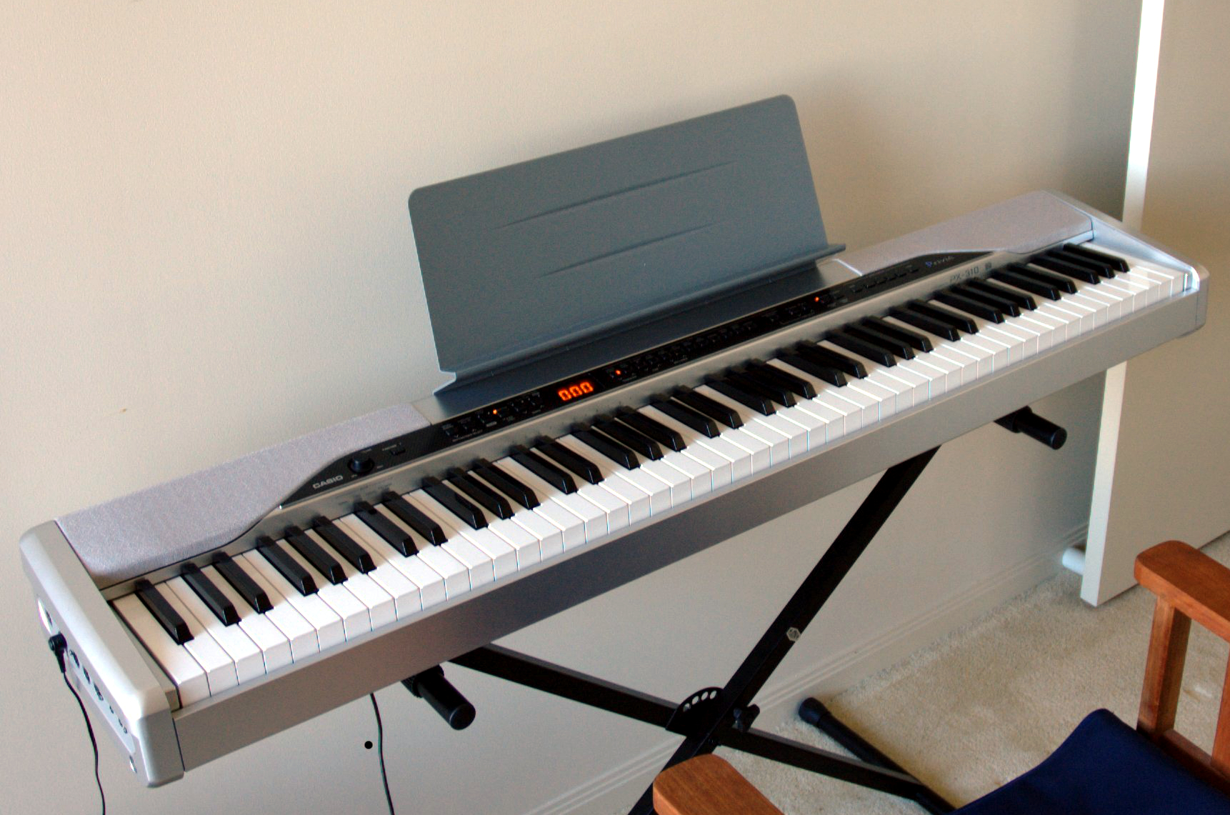 Gave in to temptation today and bought a nice Casio keyboard. 88 keys, reasonably weighted, lots of instruments. Casio Privia PX-310 digital piano